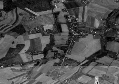 Bird's-eye view of Numidia, Pennsylvania. Taken by the EPA and USGS.